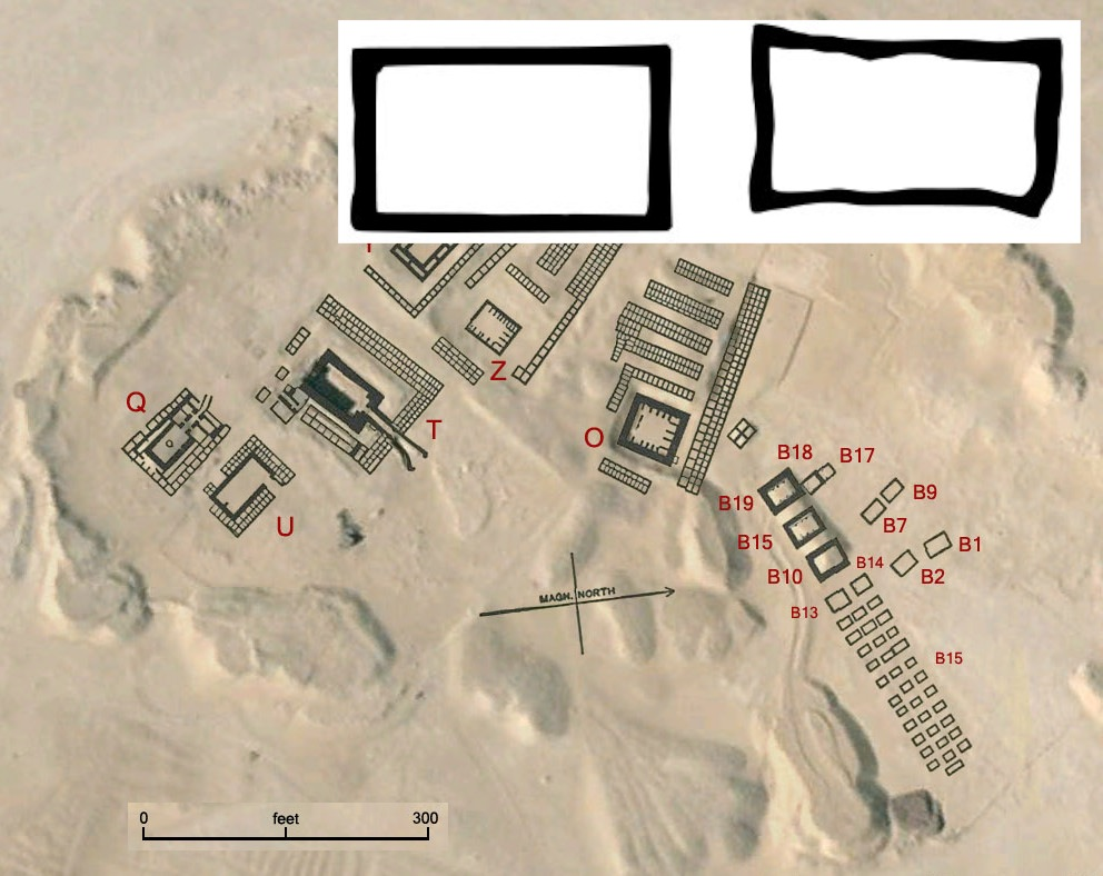 Plan of the tomb of Ka